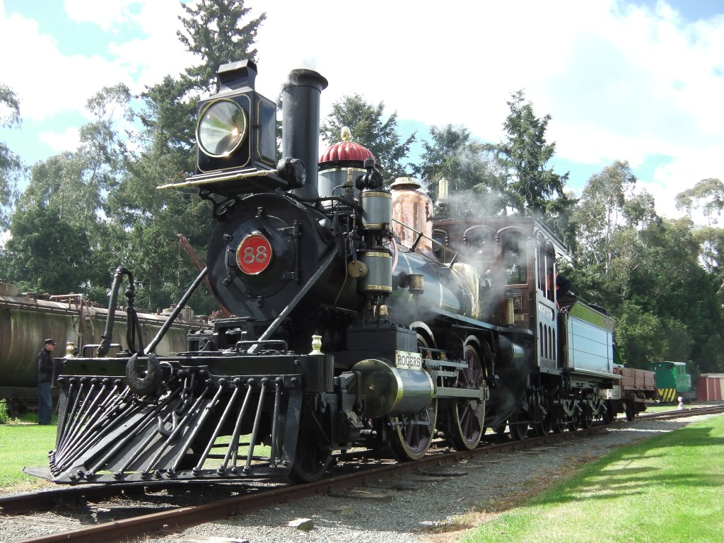 Steam locomotive K 88 at The Plains Railway near Ashburton